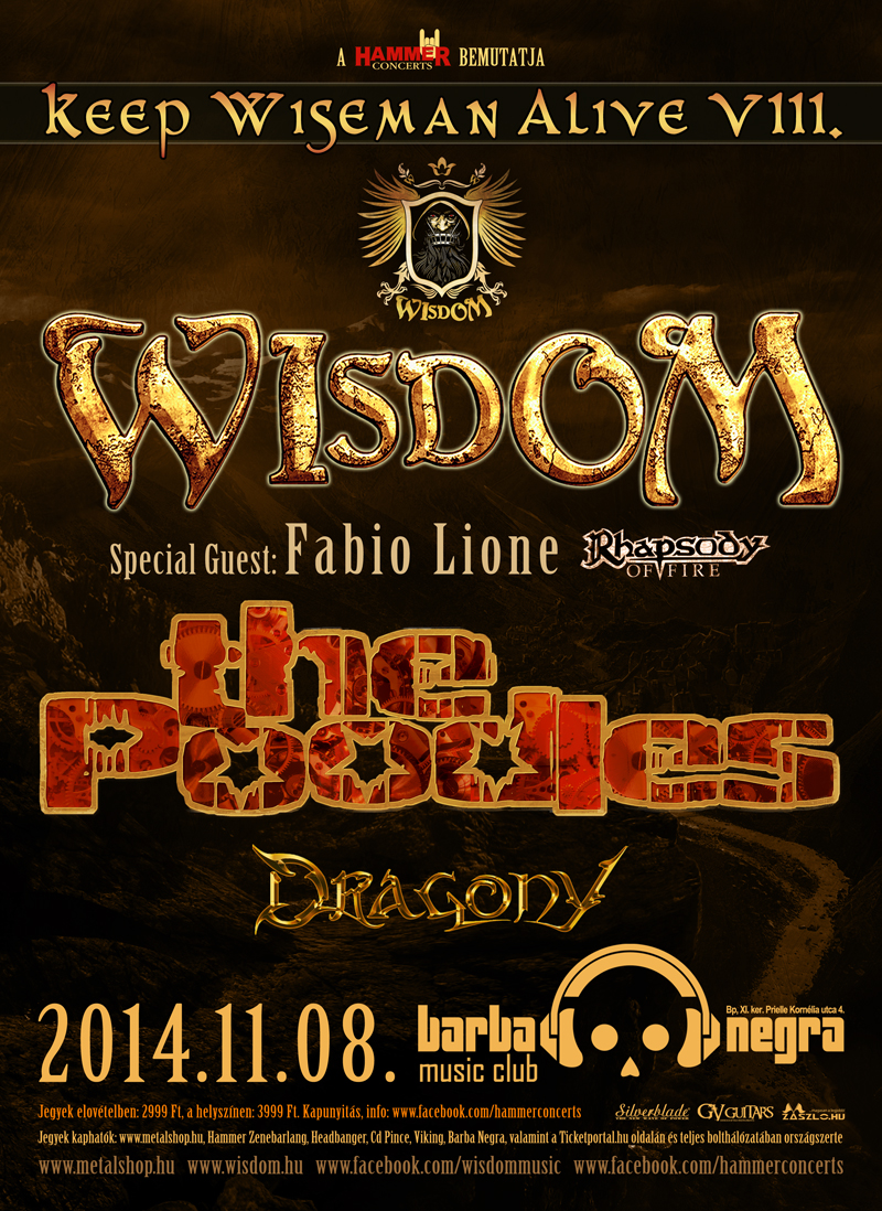 This flyer was made for the Keep Wiseman Alive VIII show in 2014.